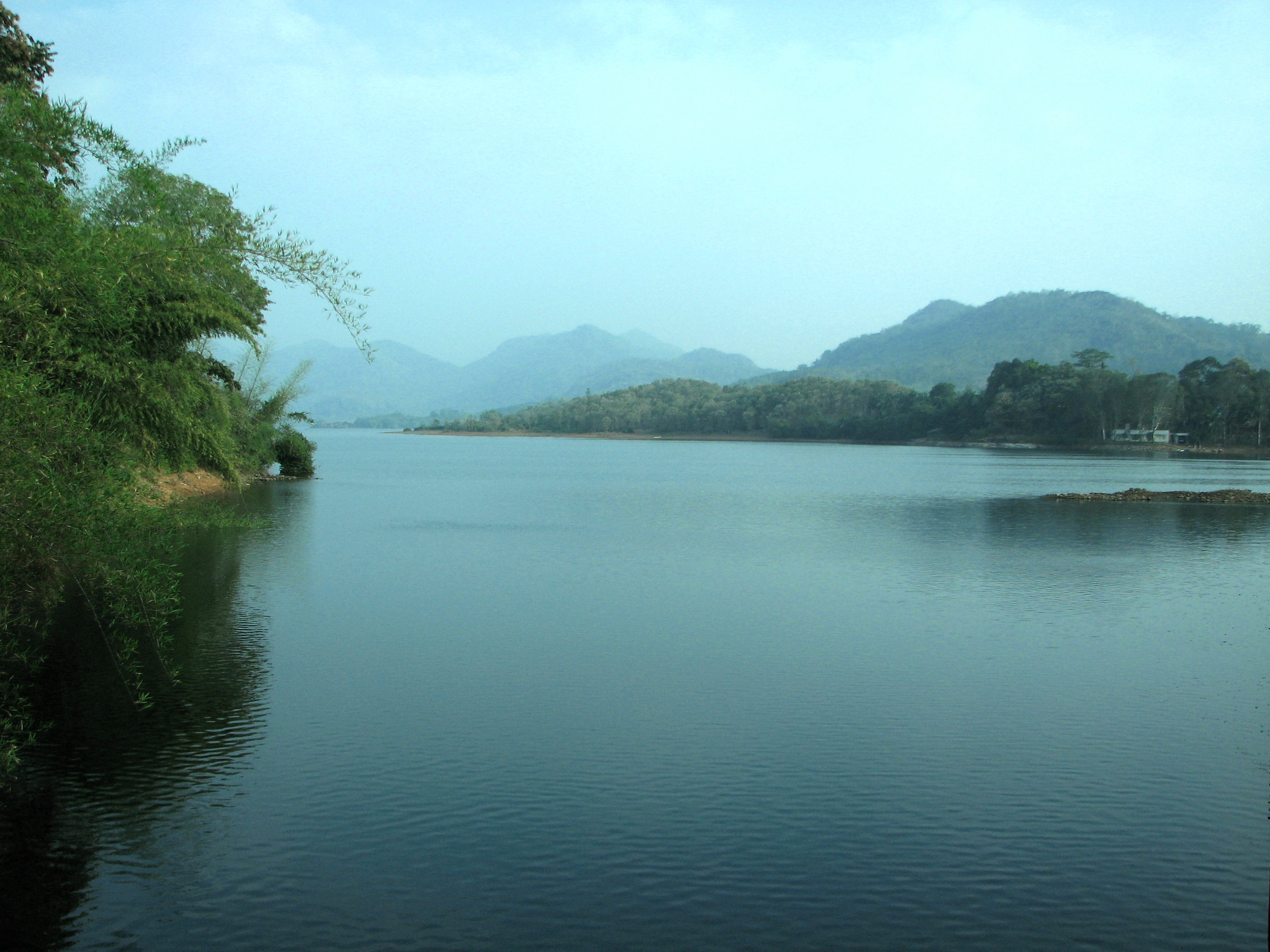 self-made image ; Author's Name : Infocaster BY SAGAR SALUJA